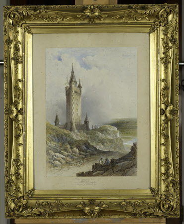 A picture of the watercolour belonging to the National Trust Collection and preserved at Mount Stuart. The picture represents the project for the Londonderry monument also known as the Scrabo Tower, submitted by the firm Lanyon and Lynn in 1857.